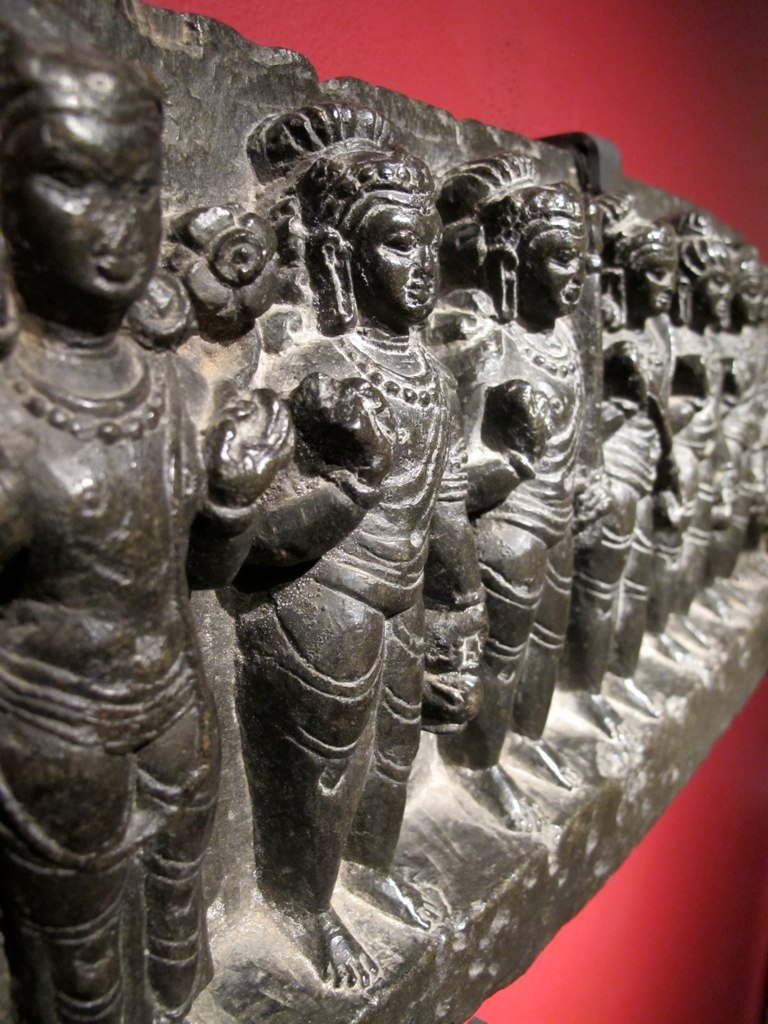 The planetary deities (navagraha) . Stone, Eastern India, 1000-1200. Ashmolean museum. Oxford.